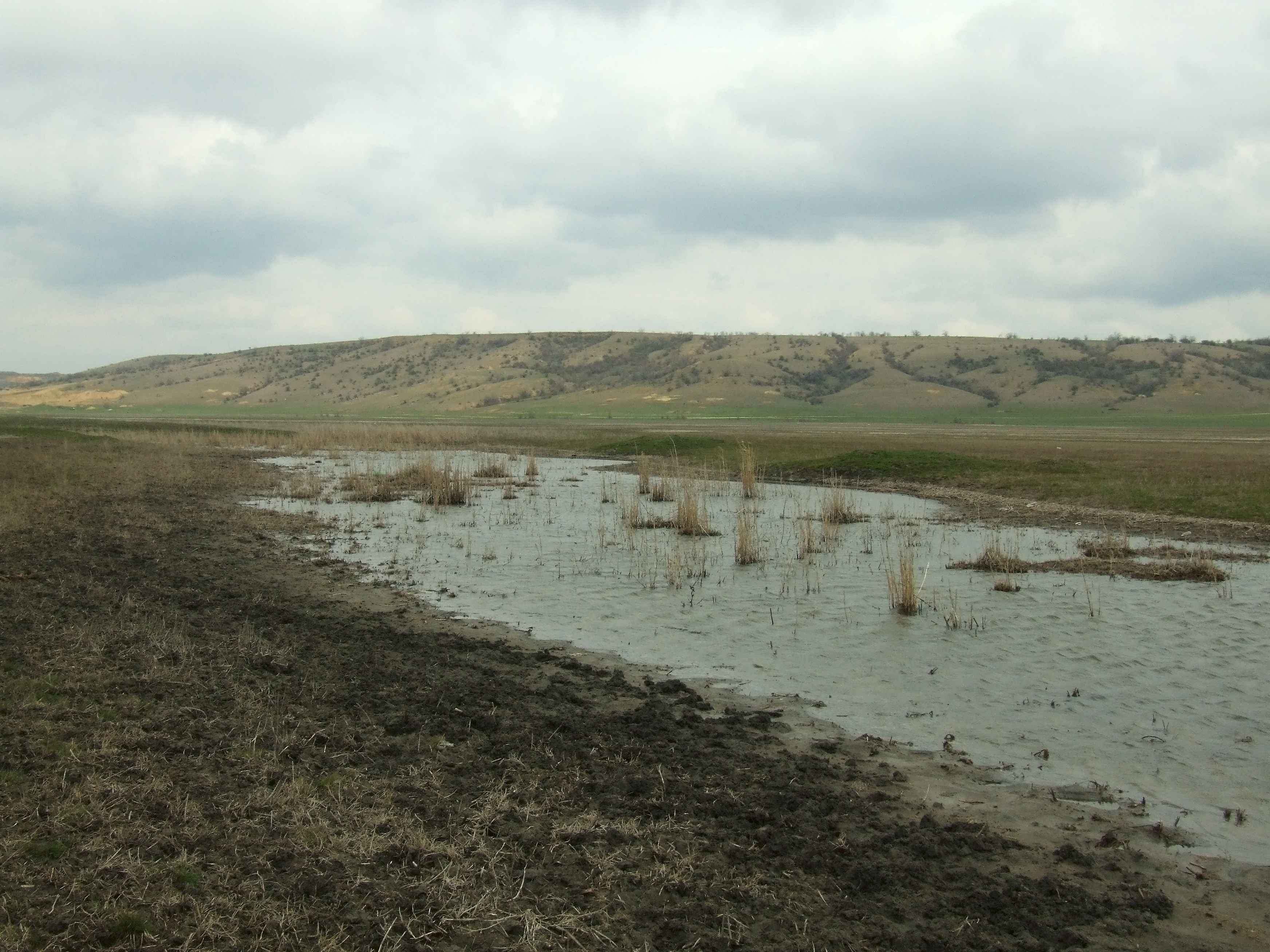 Velikyi Kuyalnyk river near Severynivka village, Ivanivskyi Raion, Odessa Oblast, Ukraine